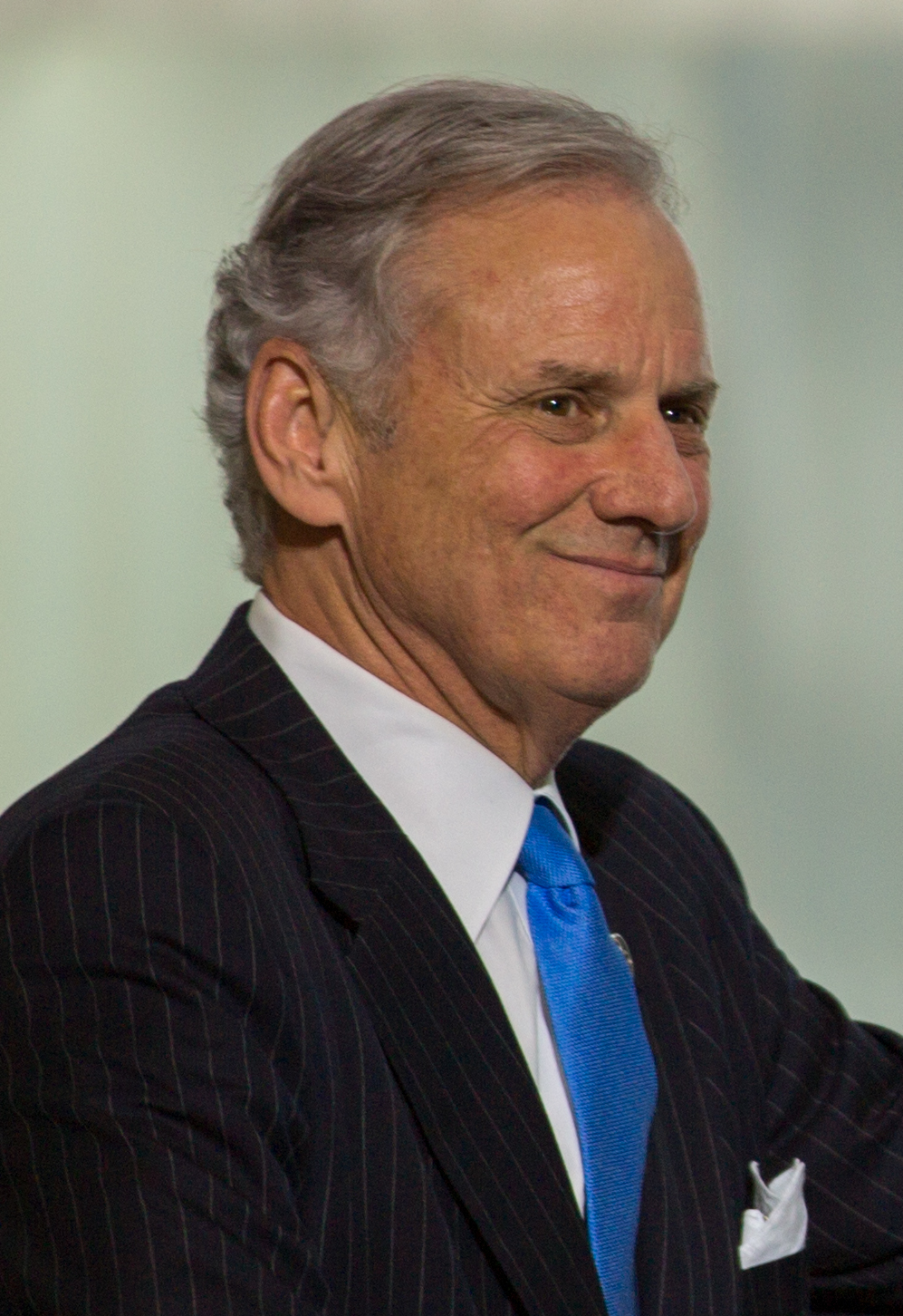 On February 17, 2017, Boeing South Carolina in North Charleston, SC rolled out the first 787-10. US President Donald Trump (POTUS) was in attendance at the ceremony. The 787-10 will be built exclusively in North Charleston, SC. Photo by Ryan Johnson